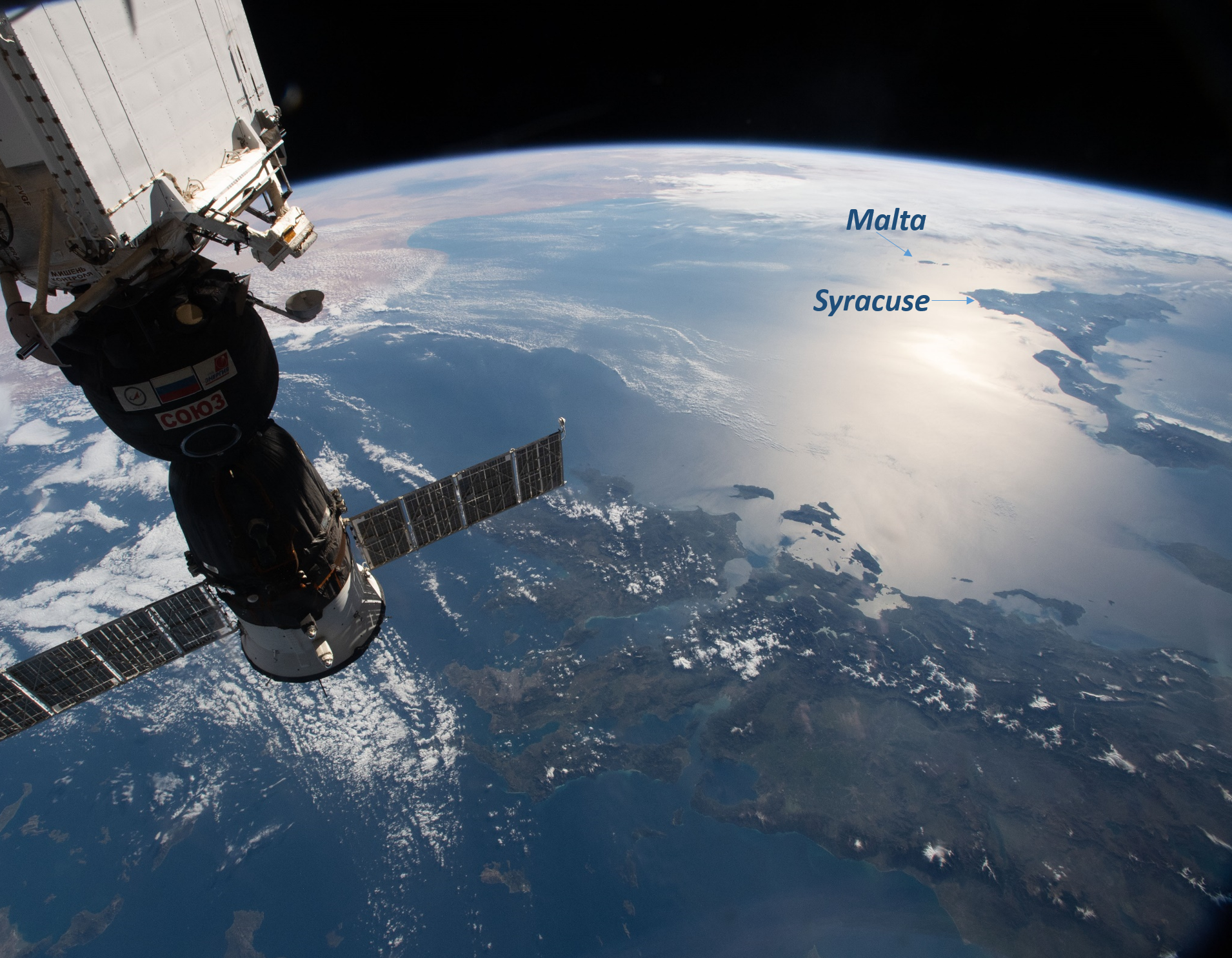 The Soyuz MS-12 spacecraft is pictured docked to the International Space Station's Rassvet module as the orbital complex flew 256 miles above the Aegean Sea. This view looks from northeast to southwest, from Greece, Italy and across the Mediterranean Sea to Libya.